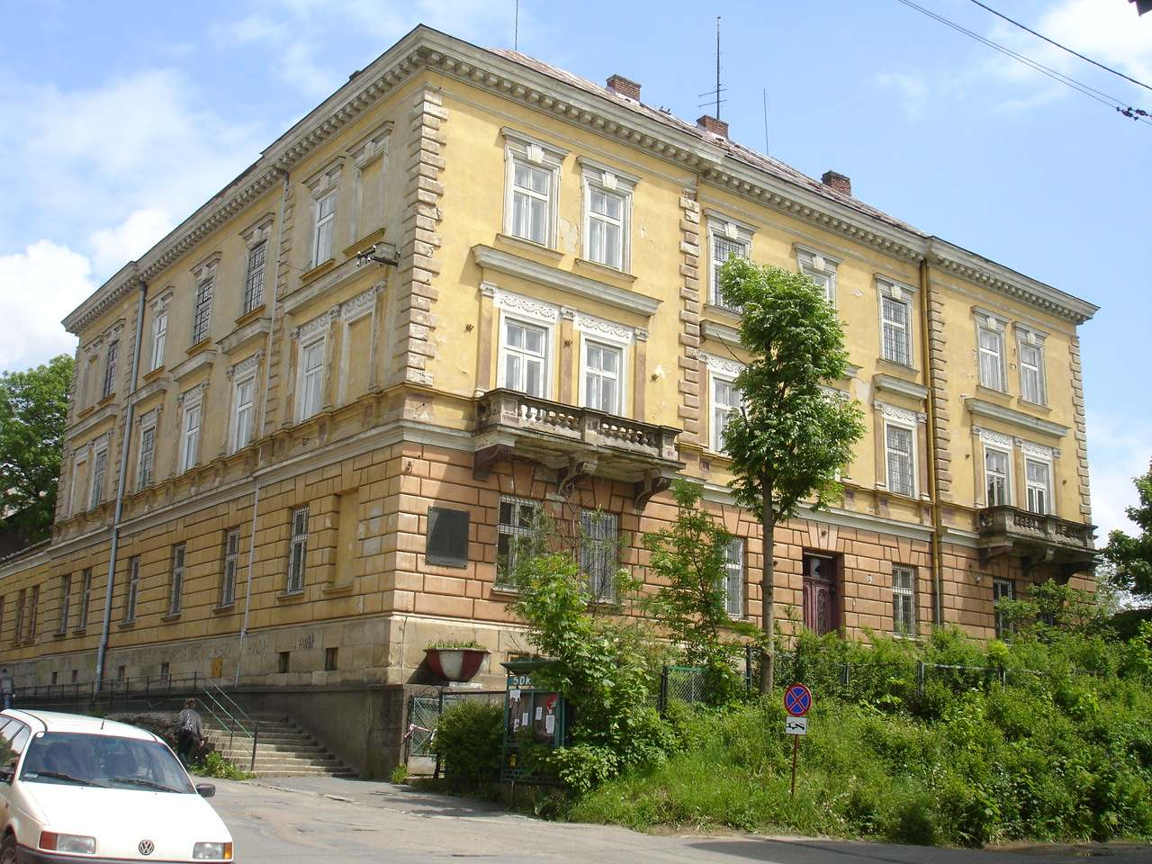 Historical Police Department building in Sanok.